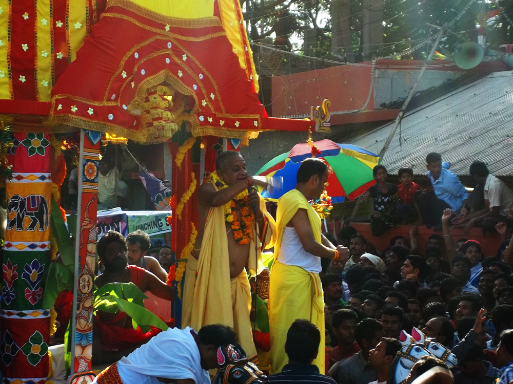 Dahuka boli in Ratha during Ratha Jatra-2011, Bengaluru, India